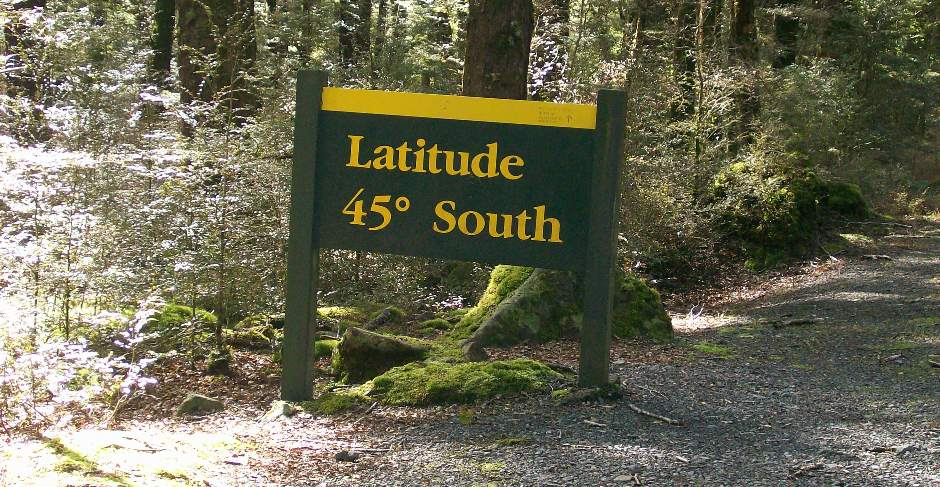 The 45th Parallel Sign on New Zealand's Milford Road, Fiordland National Park, South Island, New Zealand